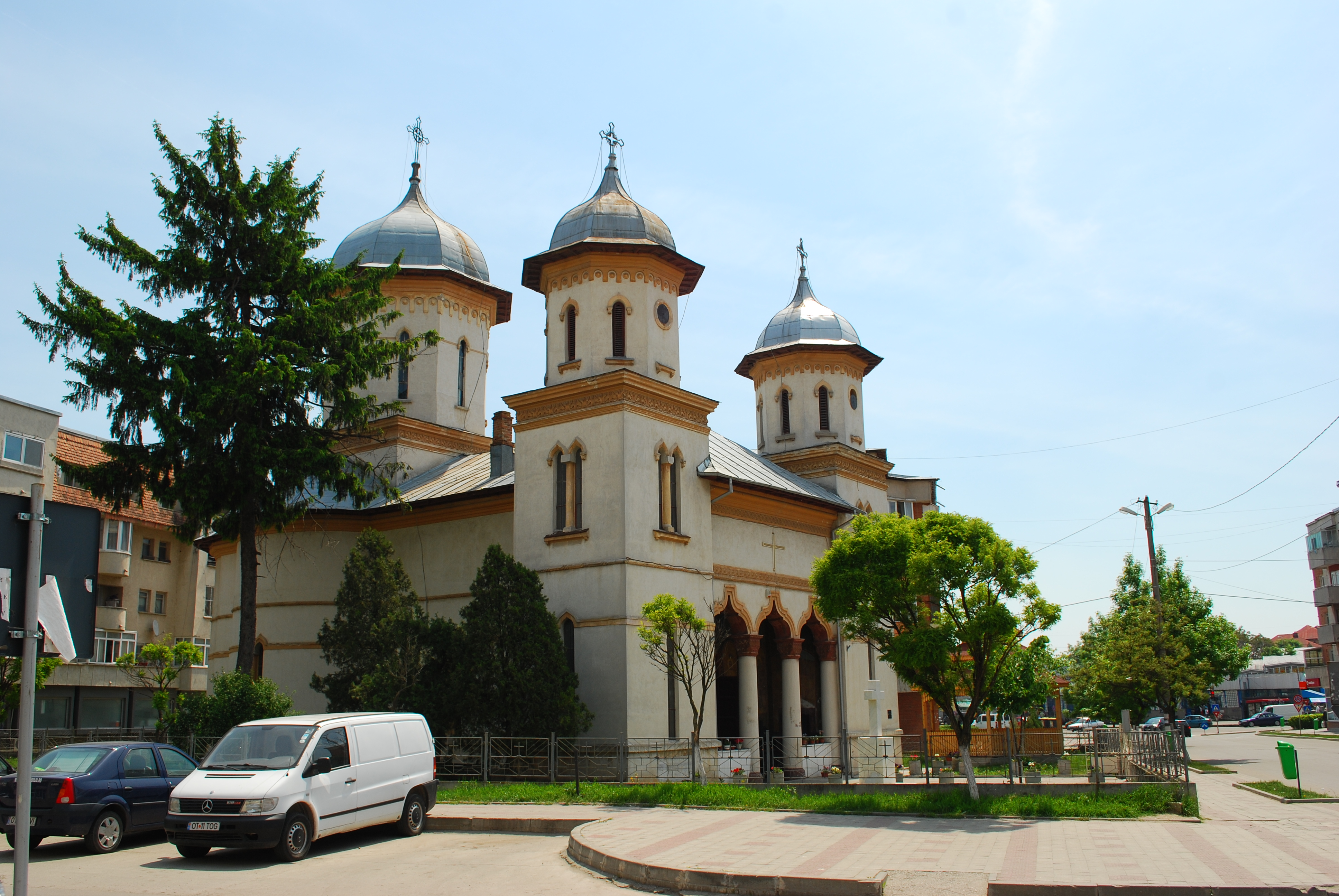 The Dormition orthodox church in Caracal, Romania.